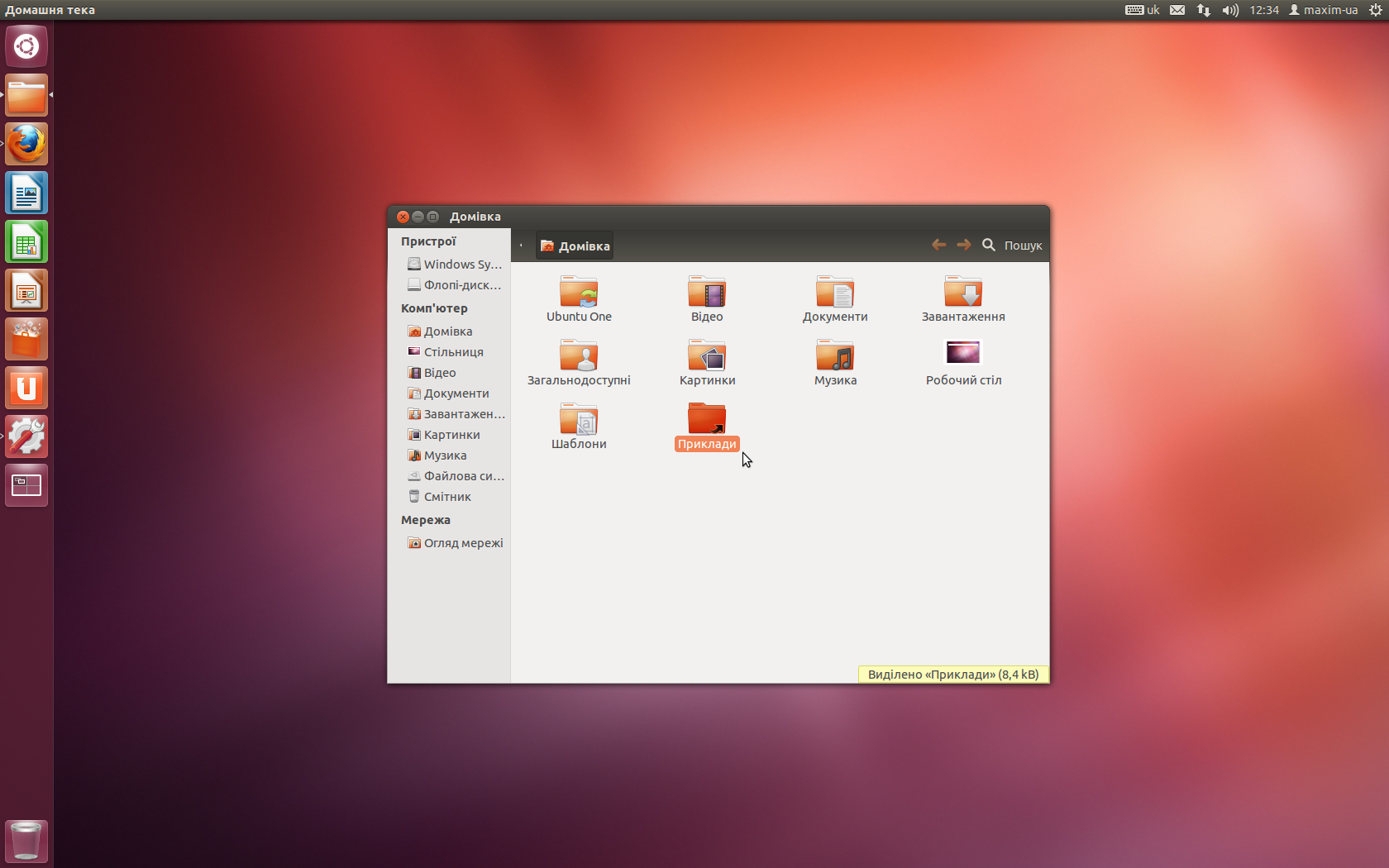 Ubuntu 12.04 LTS Home folder. In Ukrainian.